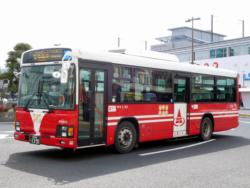 Ueda bus Isuzu Erga (QPG-LV234L3)